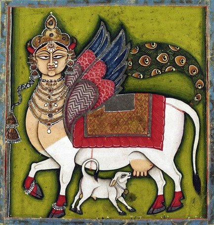 "Kamadhenu, The Wish-Granting Cow Made in Rajasthan, India c. 1825-55 Artist/maker unknown, India, Rajasthan, Jodhpur or Nathadwara Opaque watercolor and metallic pigments on paper 5 x 5 inches (12.7 x 12.7 cm) This vision of Kamadhenu, the Wish-Granting Cow, combines the white zebu cow with the crowned frontal female face, colourful "eagle" wings, and peacock tail of Buraq, the animal that the prophet Muhammad rode to heaven in his night journey (Miraj). From at least the fifteenth century, Persian paintings showed Buraq with a horse's body, wings, and woman's face; the peacock tail may have been an Indian addition. Popular images of Kamadhenu in India today often show her as in this painting, which may be one of the earliest images to merge the visual characteristics of the Hindu Kamadhenu with the Islamic Buraq."